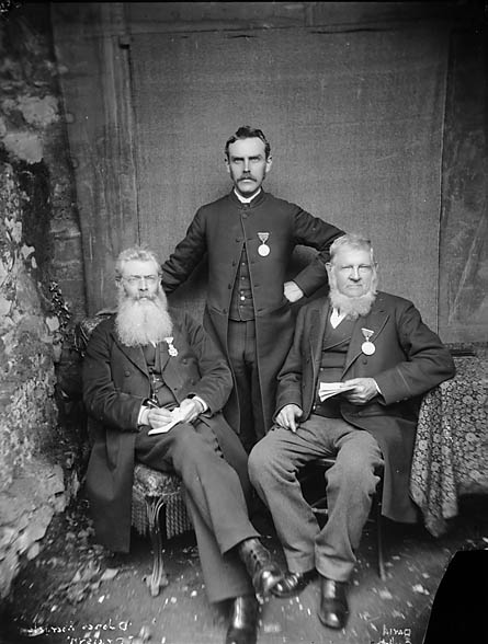 1 negative : glass, dry plate, b&w ; 21.5 x 16.5 cm.